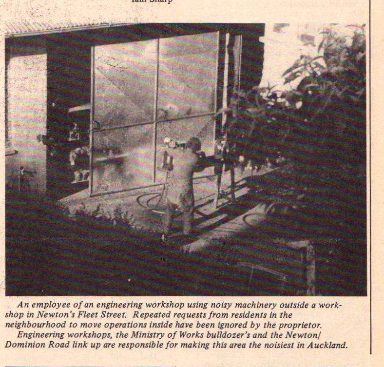 This is a photograph from Flash - Grey Lynn, Westemere Community Newletter, Issue N0.9, Page 4, 1978.